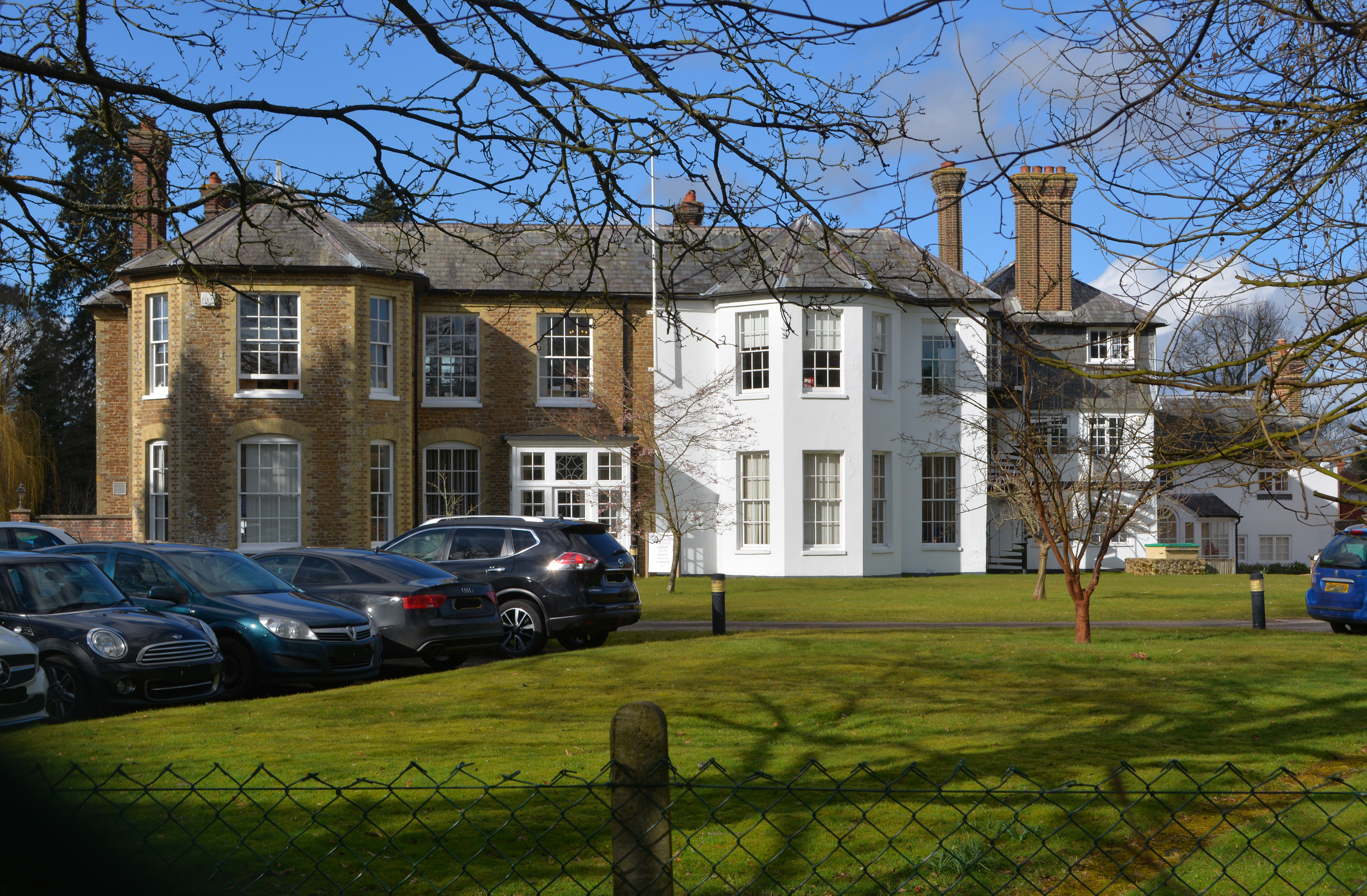 Also called Chiltlee Manor House